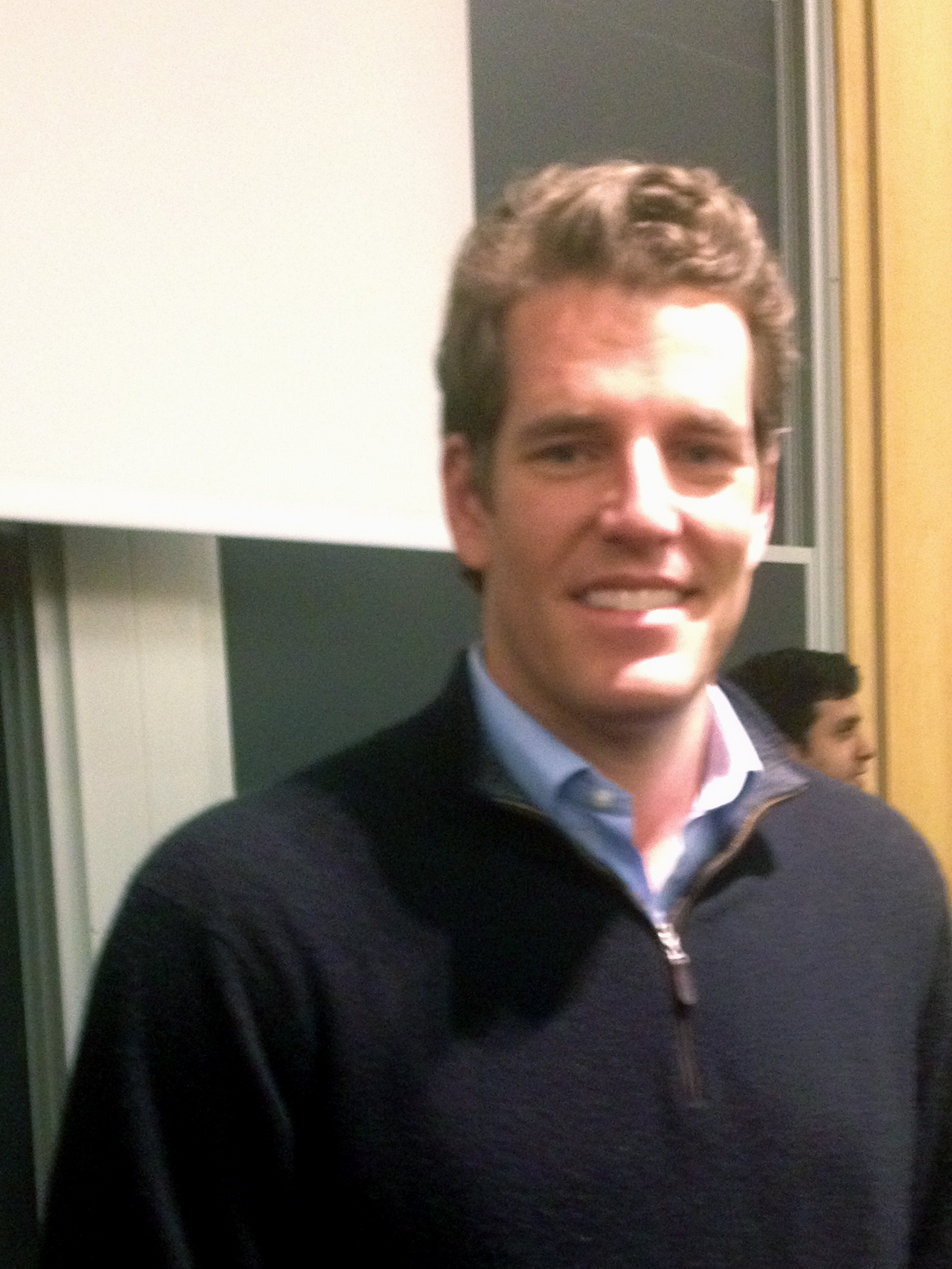 Photo of Tyler Winklevoss taken after a HackHarvard hacknight event at Harvard University. Photo taken with Mr. Winklevoss' permission.